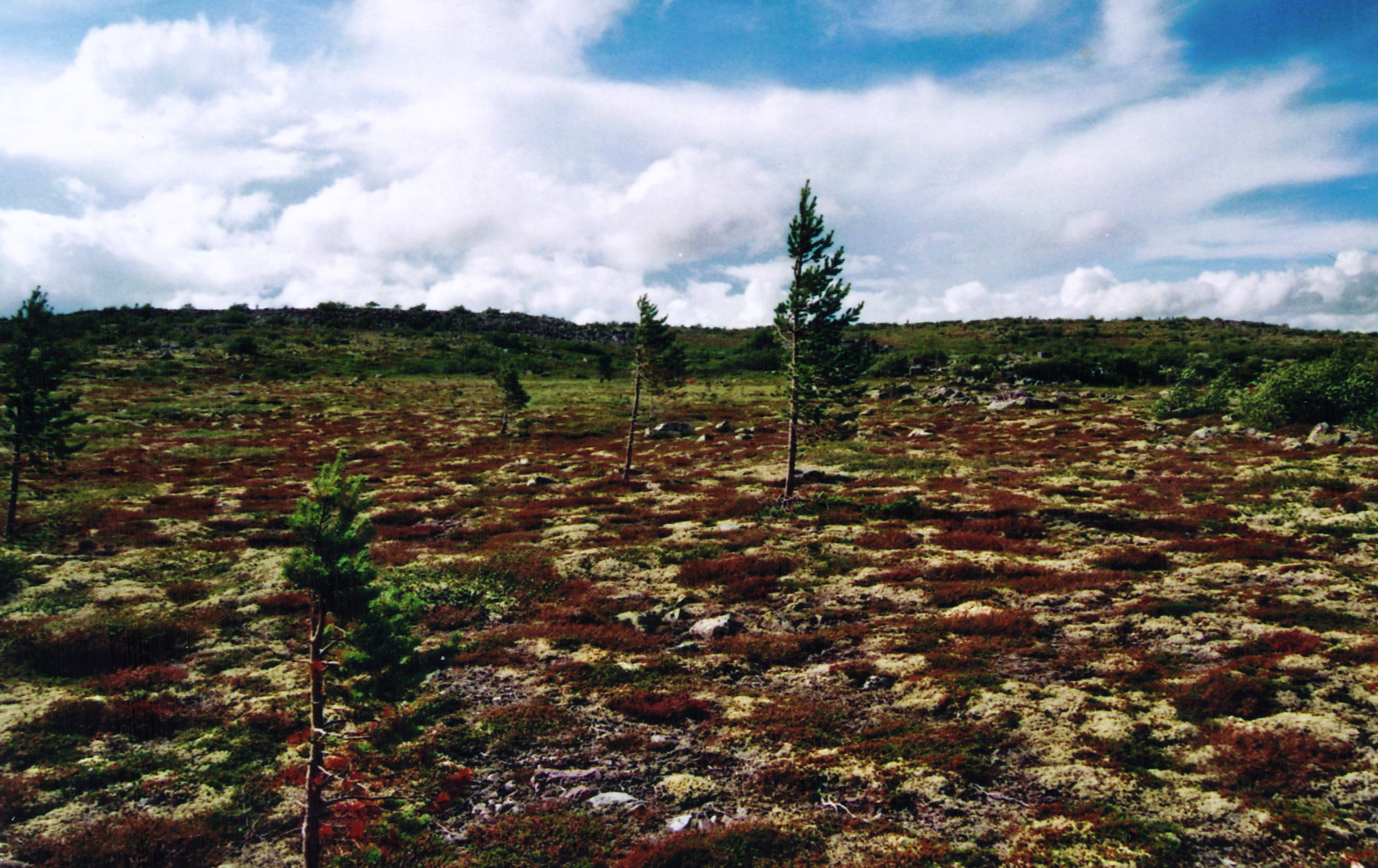 Fullufjäll in Sweden